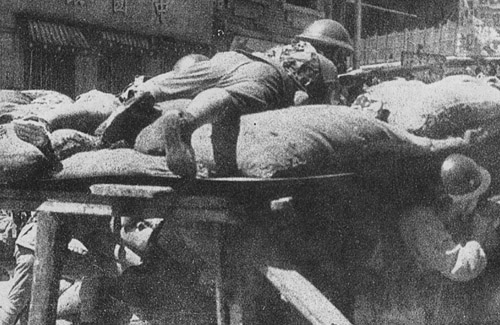 Chinese soldiers defending Shanghai, Sep-Oct 1937